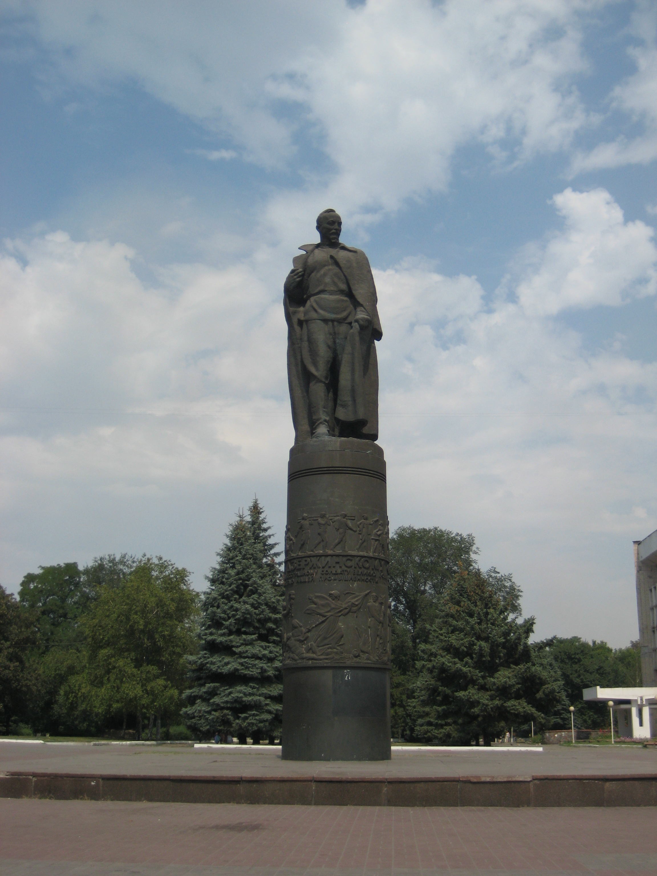 Felix Dzerzhinsky. Monument, Dneprodzerzhinsk, Ukraine